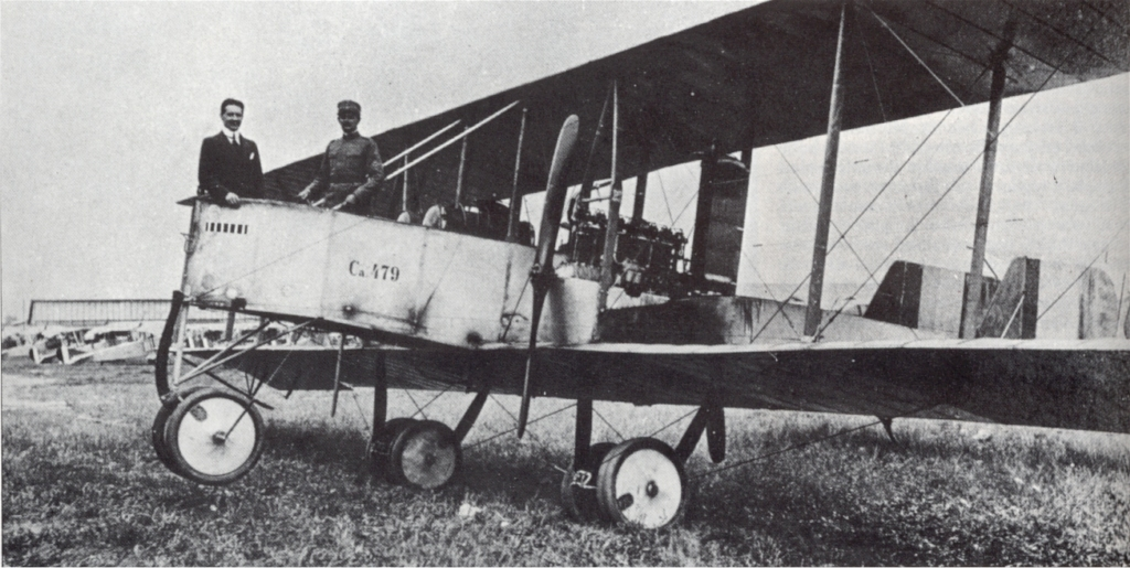 The second Caproni Ca.32 (300 hp – Ca.2) on Taliedo airport, July 1915. On board, Giovanni Battista "Gianni" Caproni (on the left) and sottotente Laureati on the right